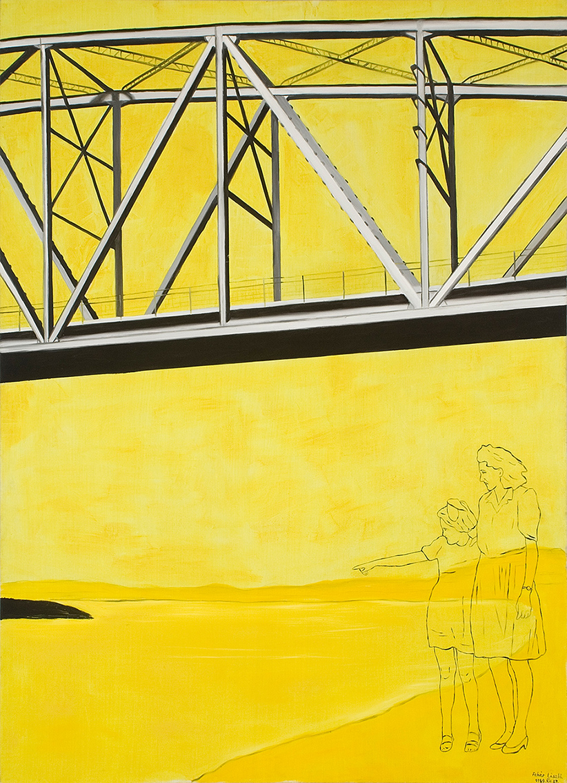 László Fehér, Under the Bridge, 1989, oil on canvas, 250 x 180 cm